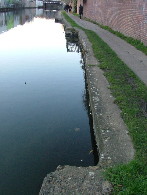 Horse Steps. At intervals along this stretch of the Regent's Canal, there are these elongated shapes at the edge of the water. they are horse steps. At these points there are submerged steps for the recovery of unfortunate beasts that have fallen into the water whilst pulling barges.